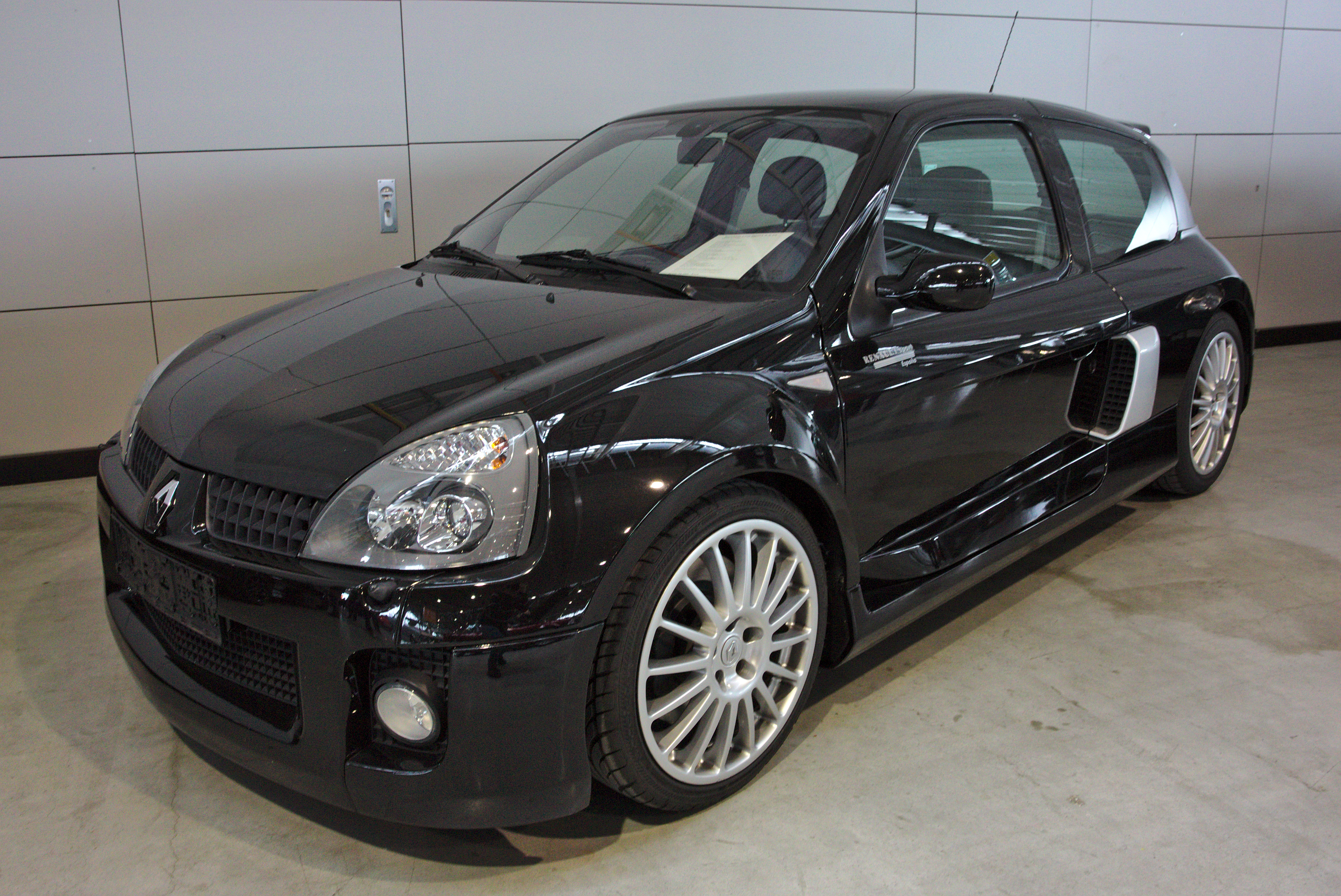 Renault Clio V6 at Retro Classics 2018